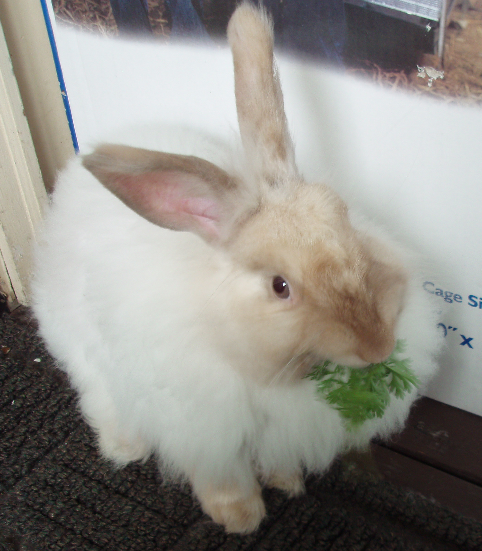 picture of a French Angora rabbit